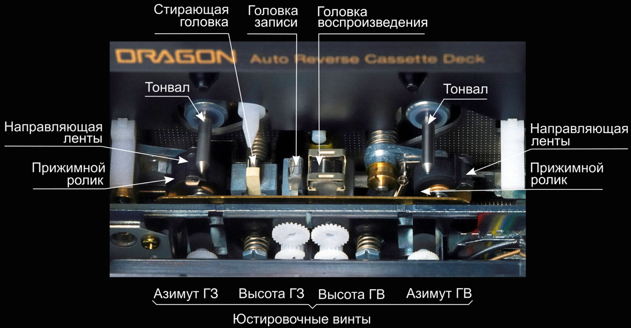 Tape path of the Nakamichi Dragon, legend in Russian